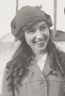 Katherine Stinson (left) and Miss Russell. Physical Description: 1 photographic print: gelatin silver, part of 1 volume (312 gelatin silver prints); 12 x 17 cm on 28 x 38 cm mount